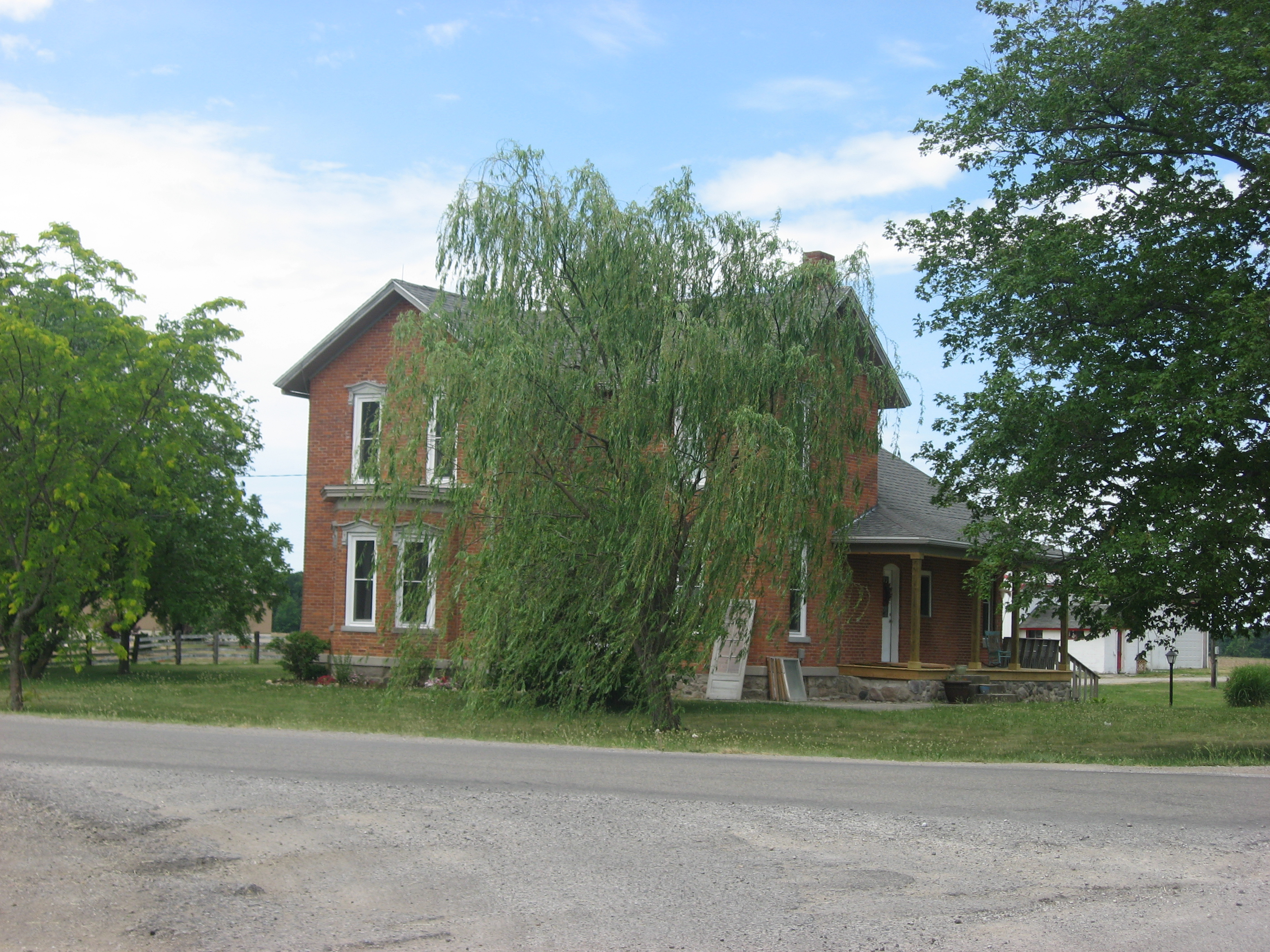 Front of the Joseph Bowman Farmhouse, located at 4128 County Road 19 northeast of Garrett in Keyser Township, DeKalb County, Indiana, United States. Built in 1875, it is listed on the National Register of Historic Places.